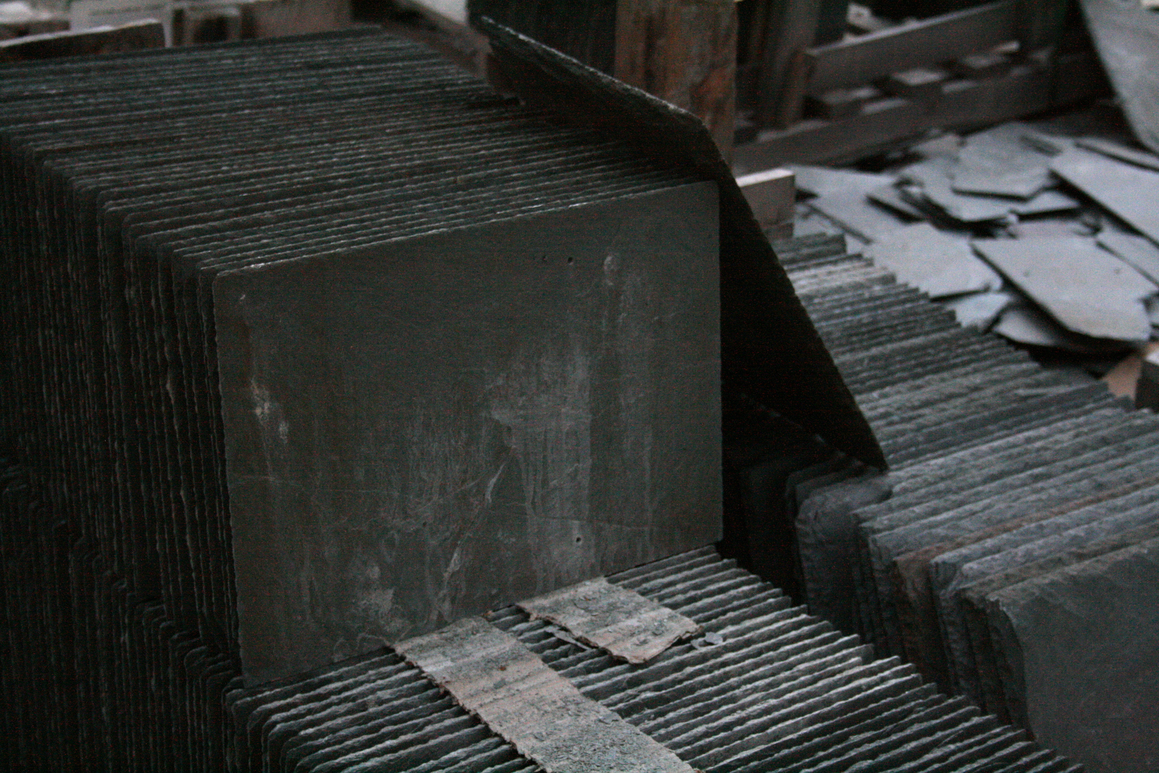 Roofing slate stacked on a pallet at a construction site on Duke University's East Campus in Durham, North Carolina. Photograph taken at dusk.